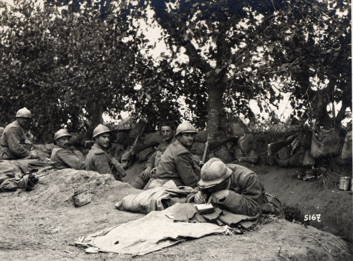 World War 1 - Italian Army: Battle of the Piave River - 22nd June 1918 Italian frontline trench near Candelu